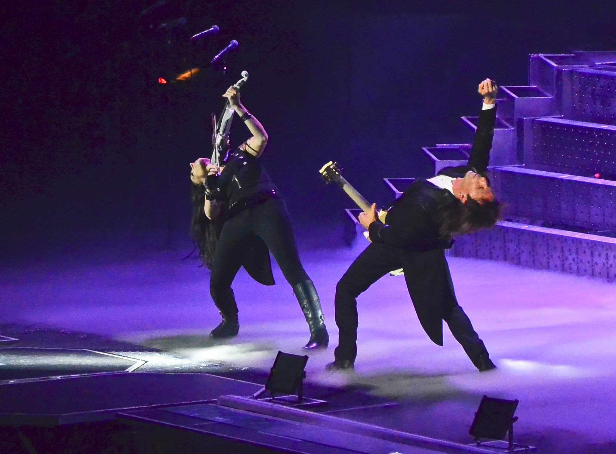 November 30, 2013 TDelCoro